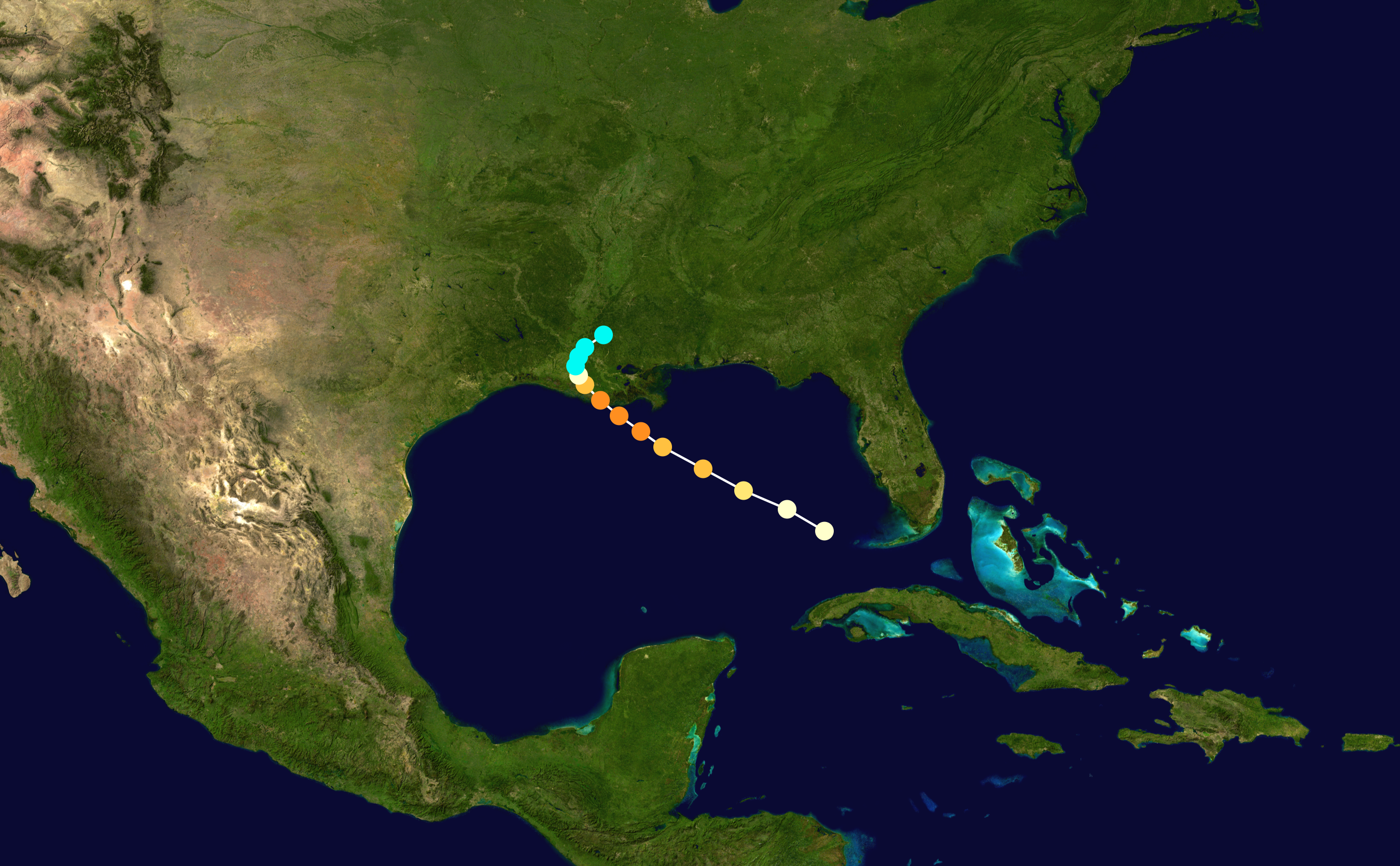 1856 Last Island hurricane track. Uses the color scheme from the Saffir-Simpson Hurricane Scale.